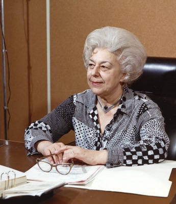 Seattle City Councilmember Jeanette Williams, January 14, 1974